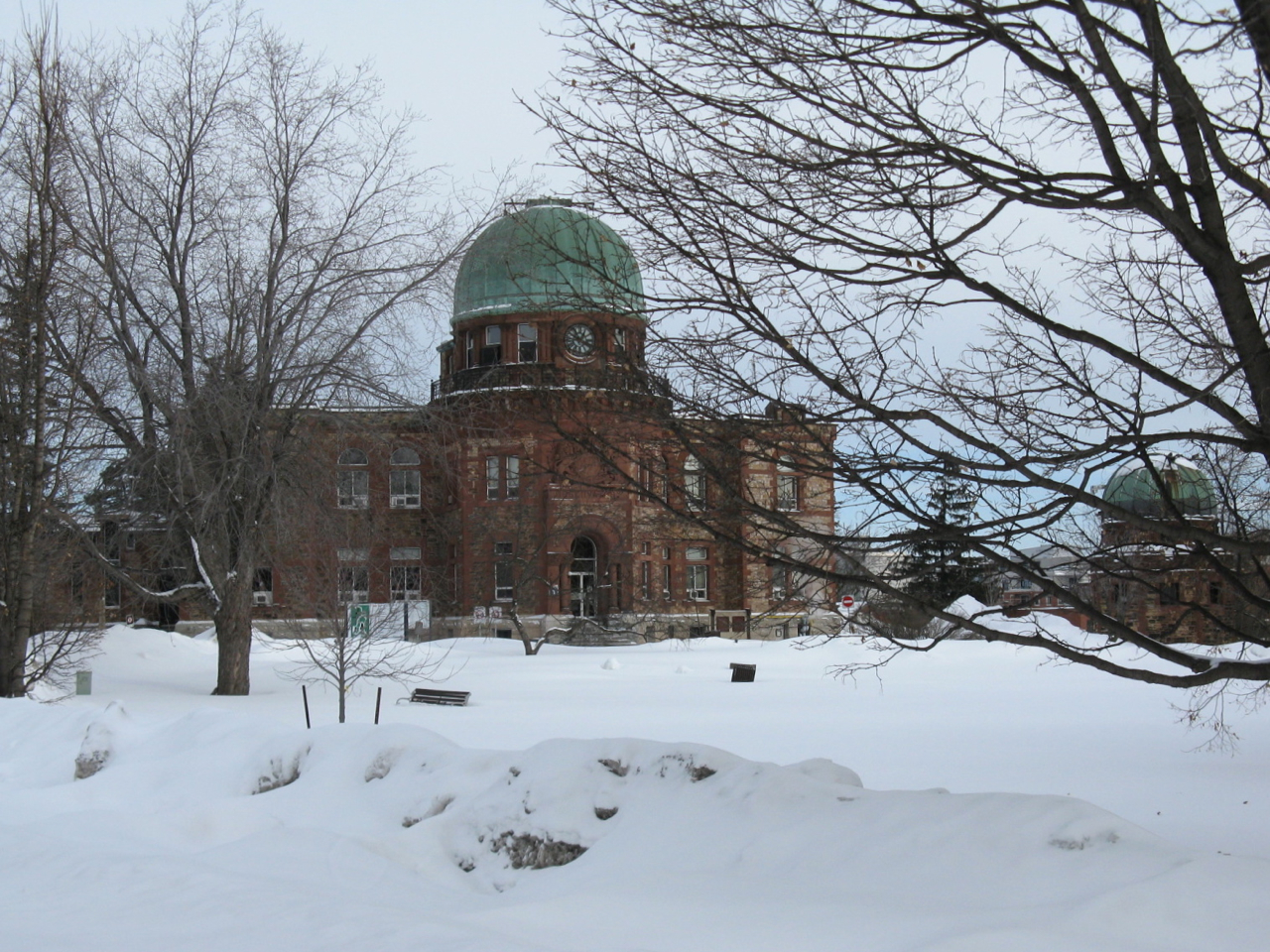 Main building